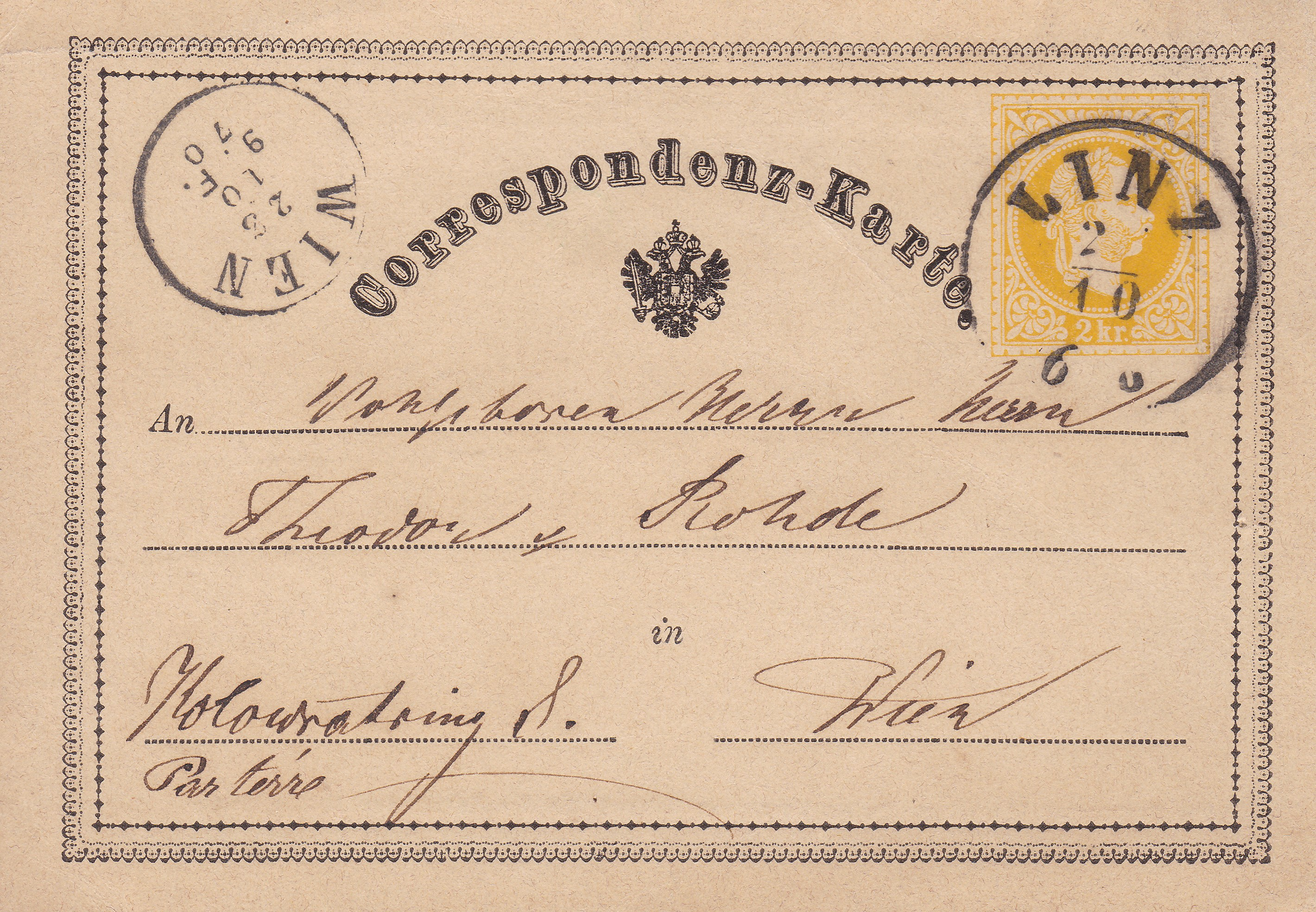 picture of the first postcard (Correspondenz-Karte) of austria since 1. Oktober 1869; austrian version